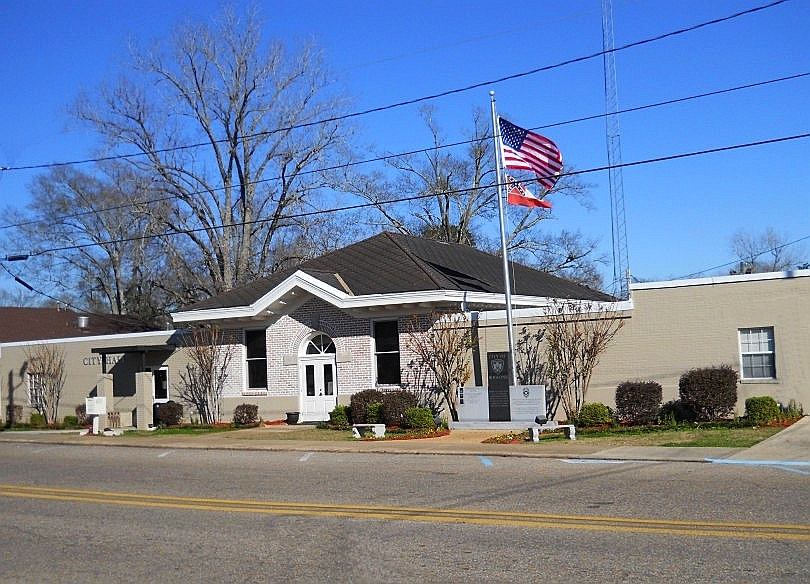 City Hall in Wiggins, Stone County, Mississippi, USA.